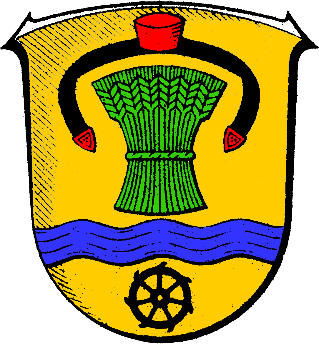 Coat of Arms of Schrecksbach